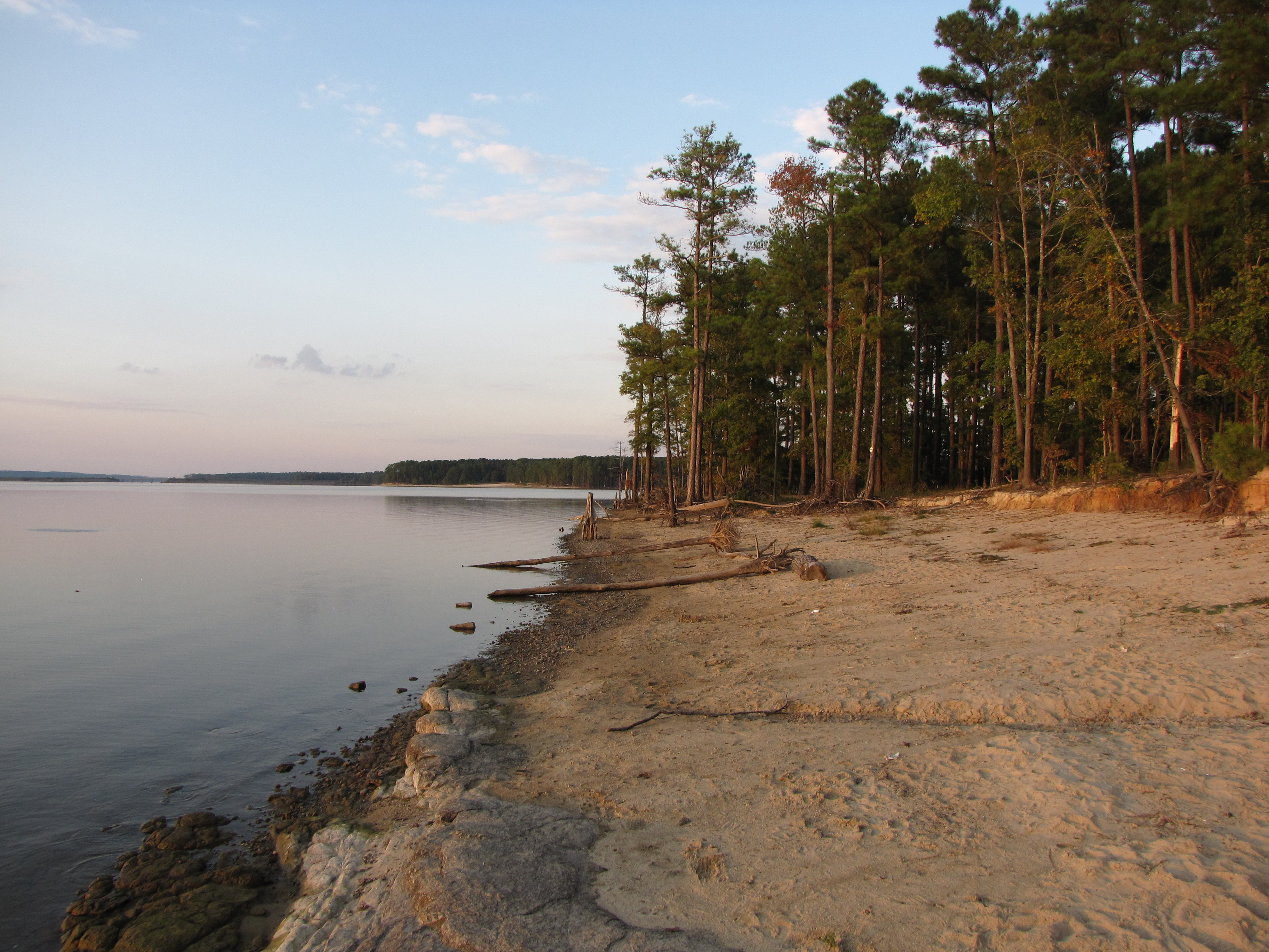 Jordan Lake State Recreation Area is on Jordan Lake in Chatham and Wake Counties in North Carolina. It is just west of Apex in the Research Triangle area. The lake is formed by damming the New Hope and Haw Rivers just above their confluence at the Cape Fear River. The pictures were taken at the Ebenezer Church Recreation Area on the east side of the lake.